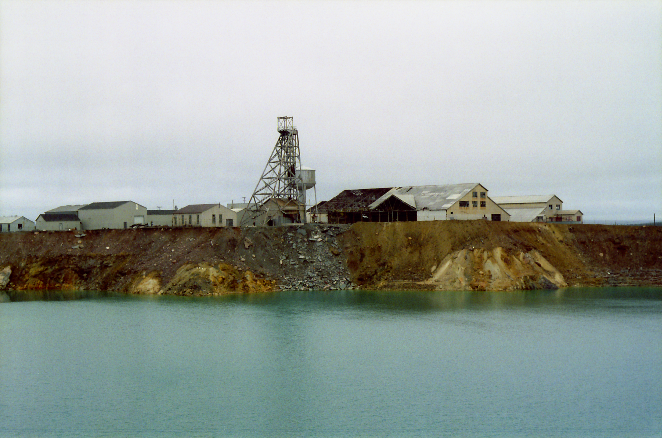 Old mineworks on the shore nearby Buchans, Newfoundland, Canada